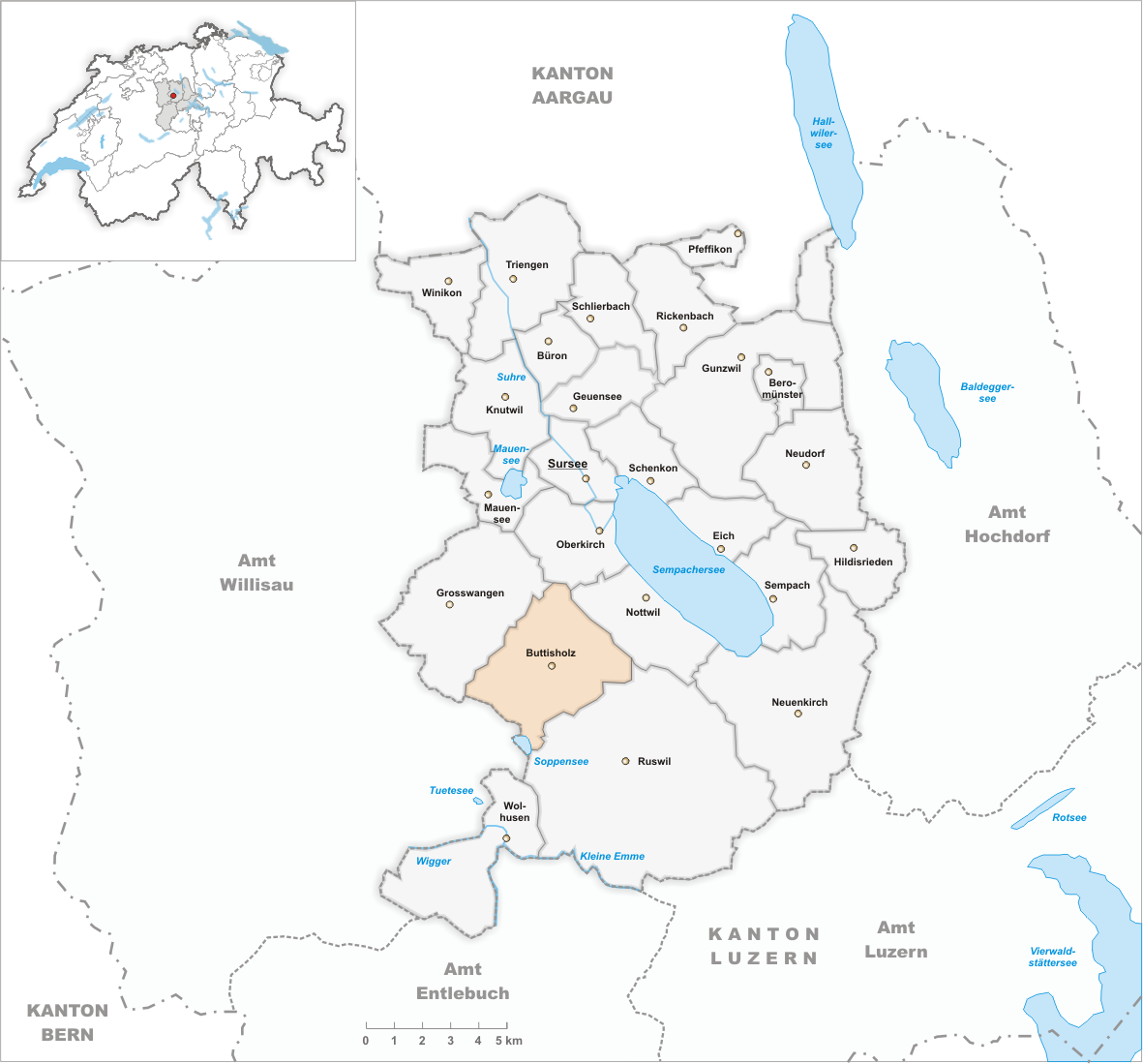 Municipality Buttisholz